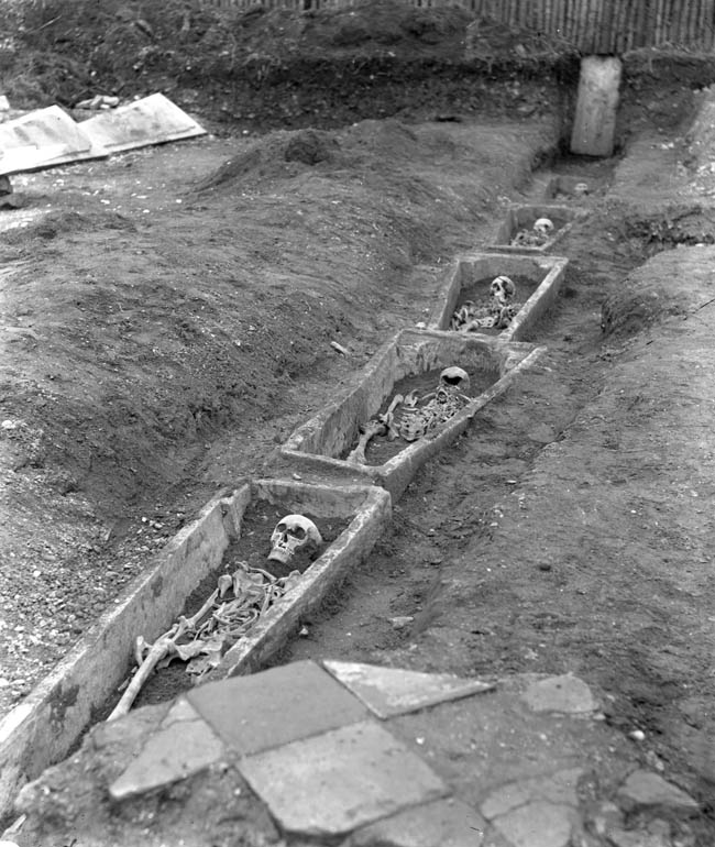 Dead abbots and their coffins, Bury St Edmunds Abbey, Bury St Edmunds, Suffolk, England